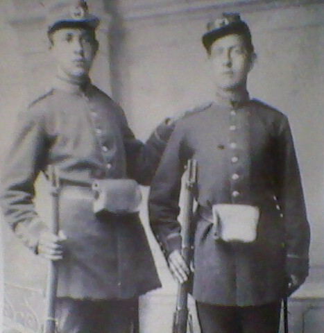 Serbian Cadets with M1878/80 Serbian Mauser